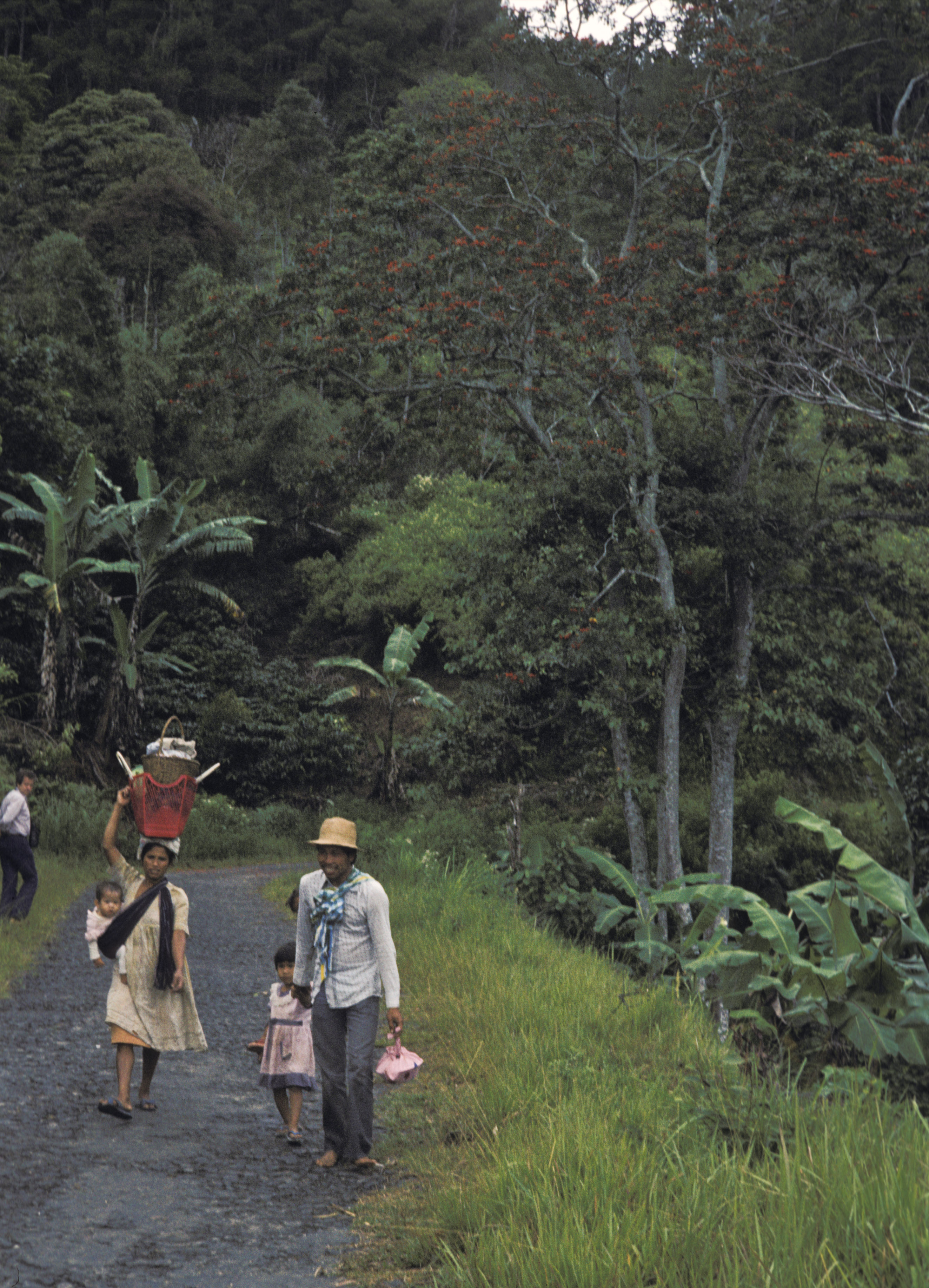 Sumatra in 1981, locality unknown